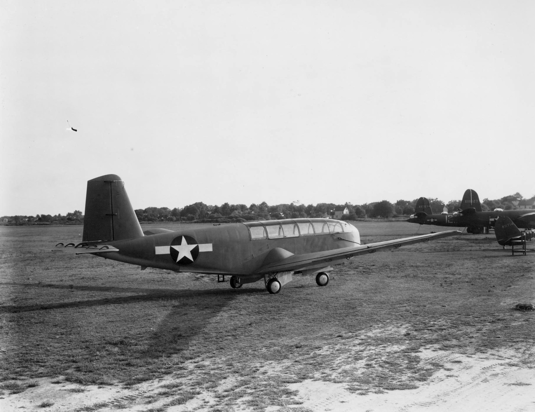 A U.S. Navy XLRQ-1 glider at the Bristol Aeronautical Corporation in Bristol, Connecticut (USA), 1942. Note the Martin JM-1 Marauders in the background.